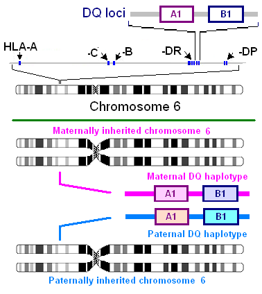 Illustration of the DQ locus on chromosome 6, upper panel showing the physical location between DR loci and DP loci on the same chromosome within the HLA region. HLA-DQ antigen is compoesed of two polypeptide subunit genes HLA-DQA1 and HLA DQB1. DQ alpha is encoded by HLA-DQA1 and DQ beta is encoded by DQB1. The bottom portion shows the haplotypes inherited by a persons mother (maternal) and father (paternal) A1 = DQA1 locus, B1 = HLA-DQB1 locus (also known as Celiac1). If a person is heterozygote at both loci, then mother and father differ in genes (alleles) at both A1 and B1. A1 and B1 express proteins alpha and beta - the DQ antigen.